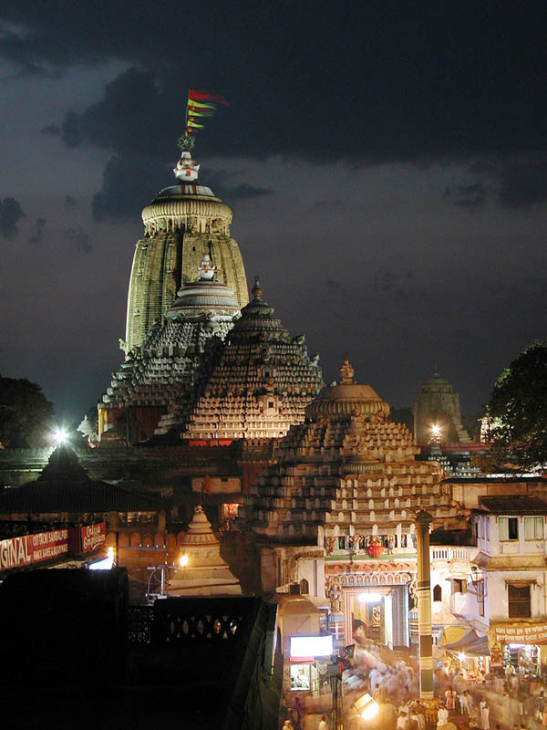 The World Famous Lord Jagannatha Temple---------Puri--India